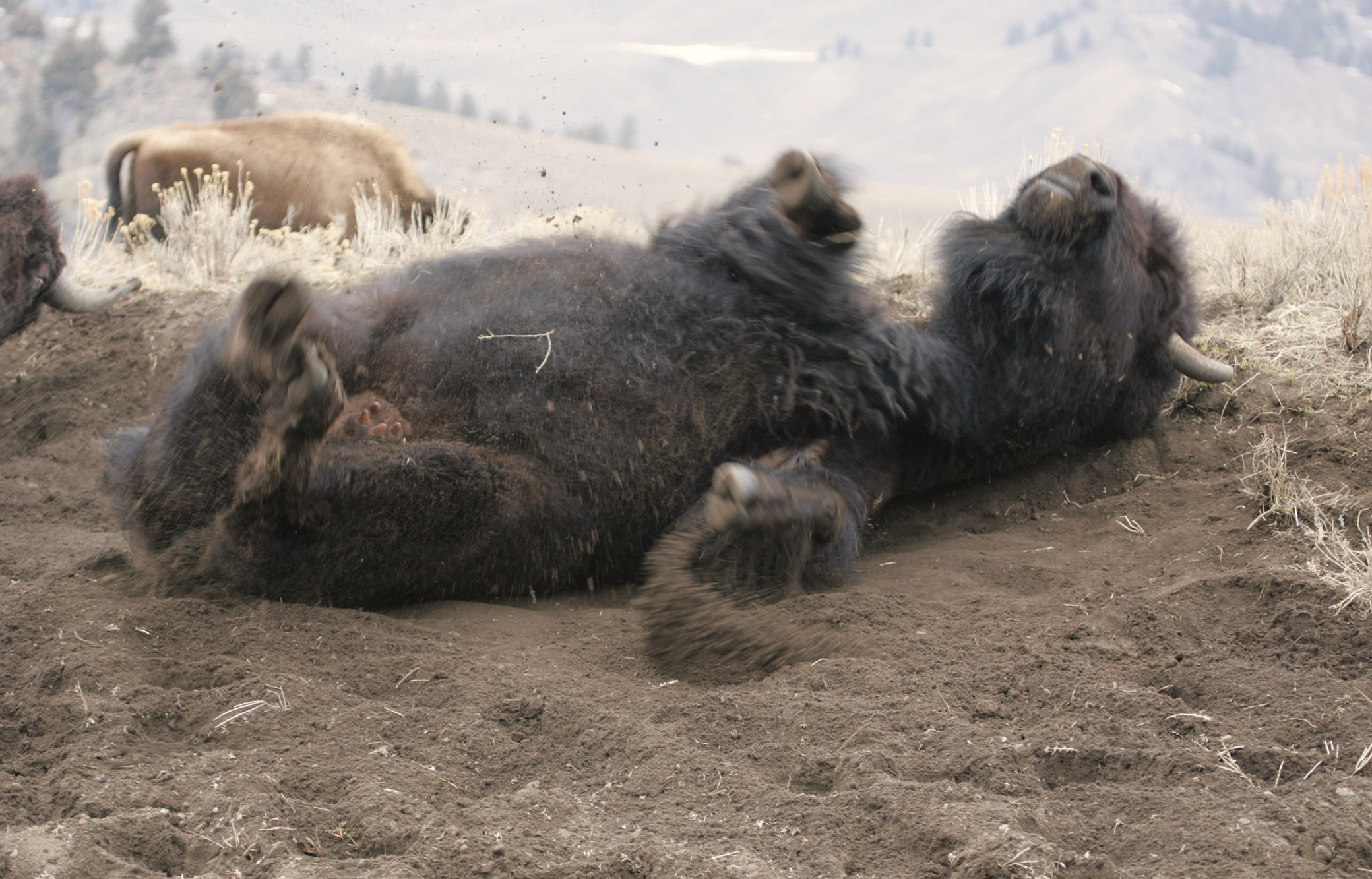 A bison rolls in the dirt. Bison wallowing in Little America Flats Keywords: yellowstone national park; mammals; wildlife; bison; bison bison; 18211d